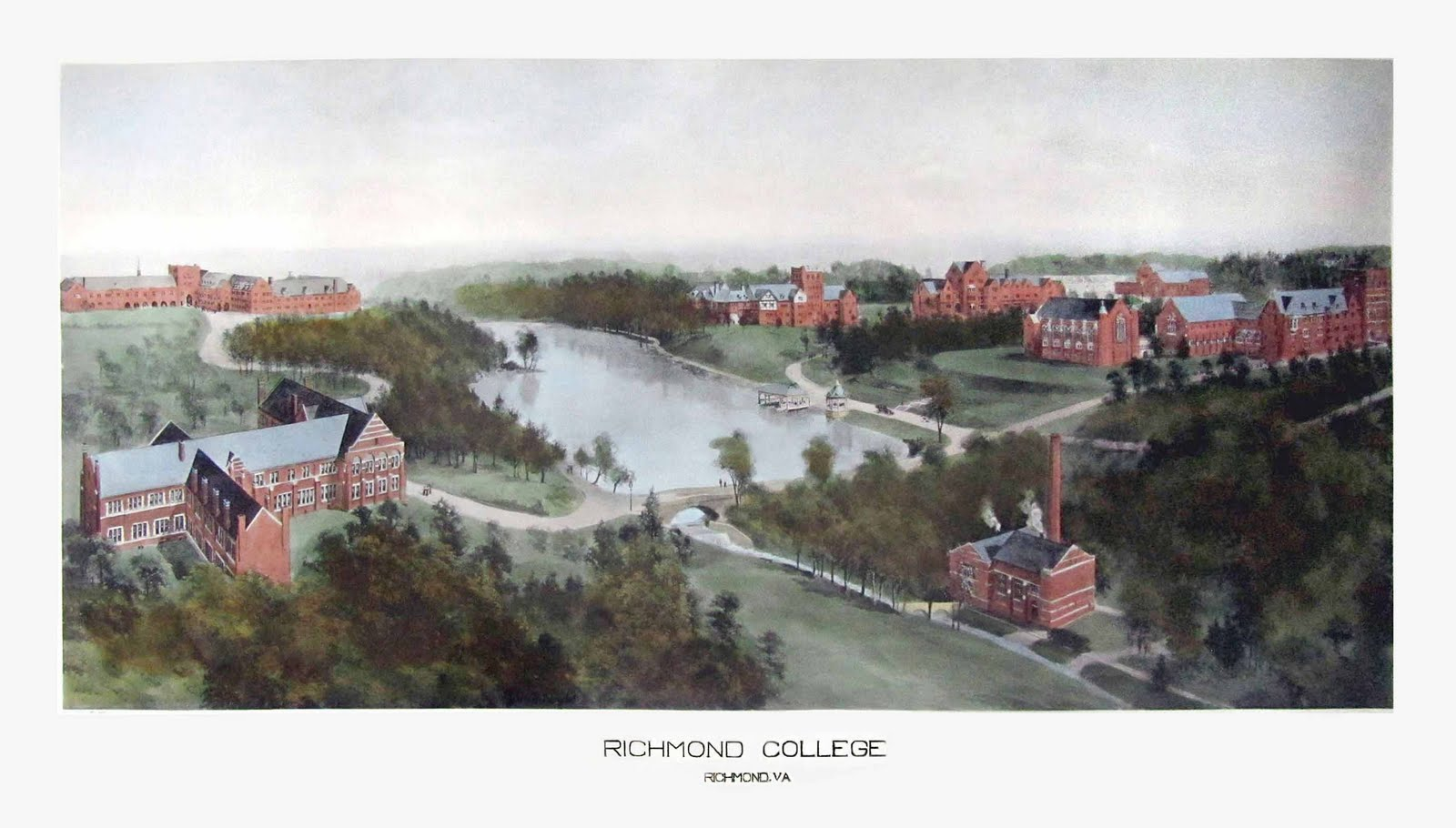 Richard Rummell's iconic landscape watercolor view of Richmond College (University of Richmond), 1915. Courtesy of Arader Galleries.